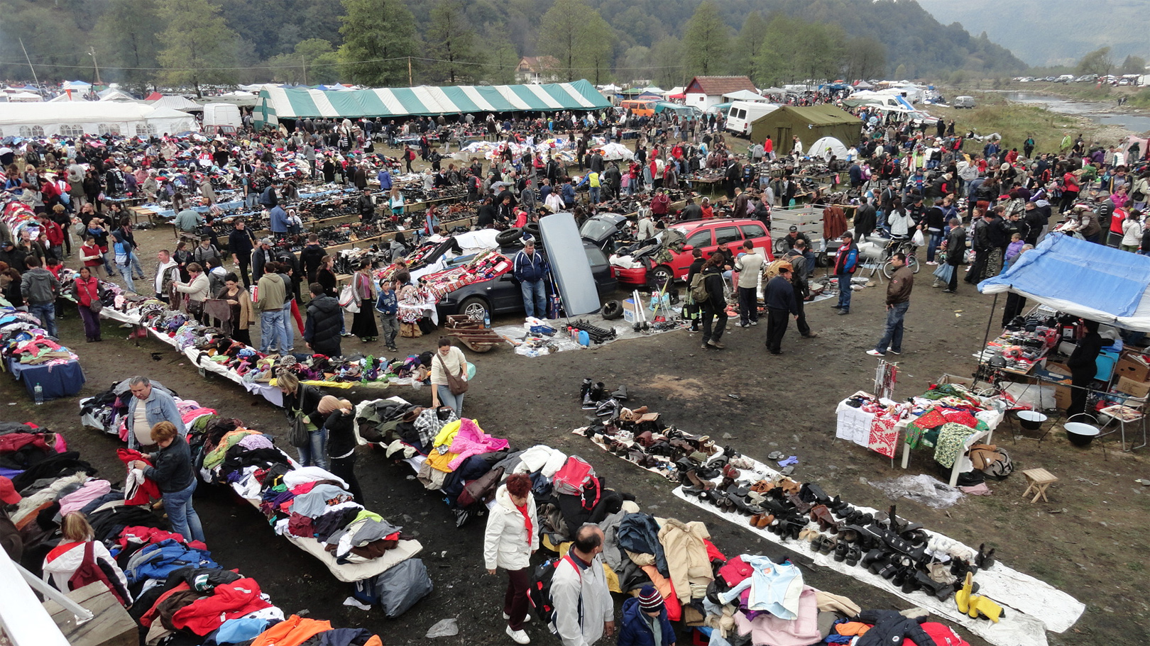 The annual fair in Negreni, Cluj, Romania